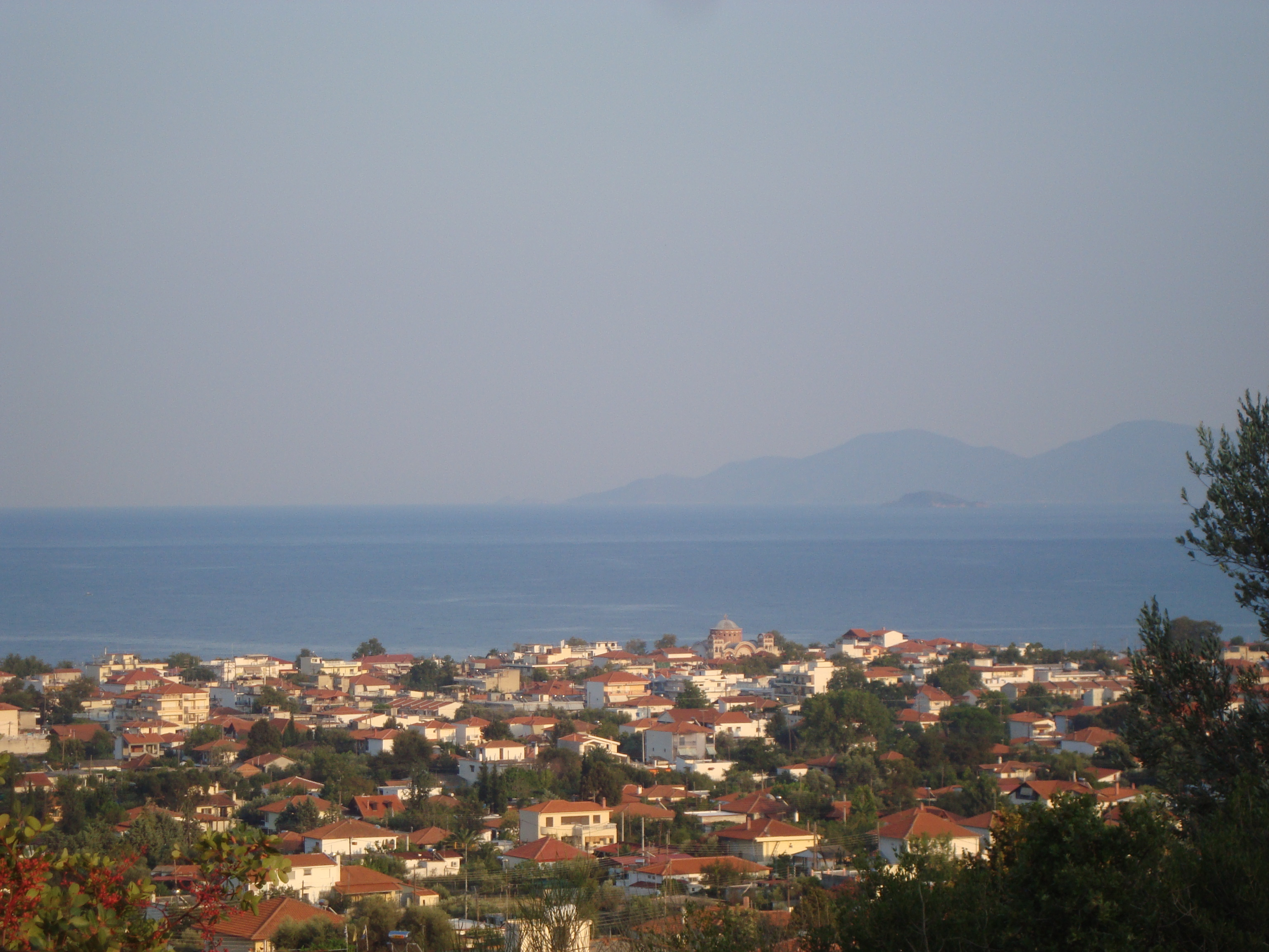 Panoramic view of Asprovalta.